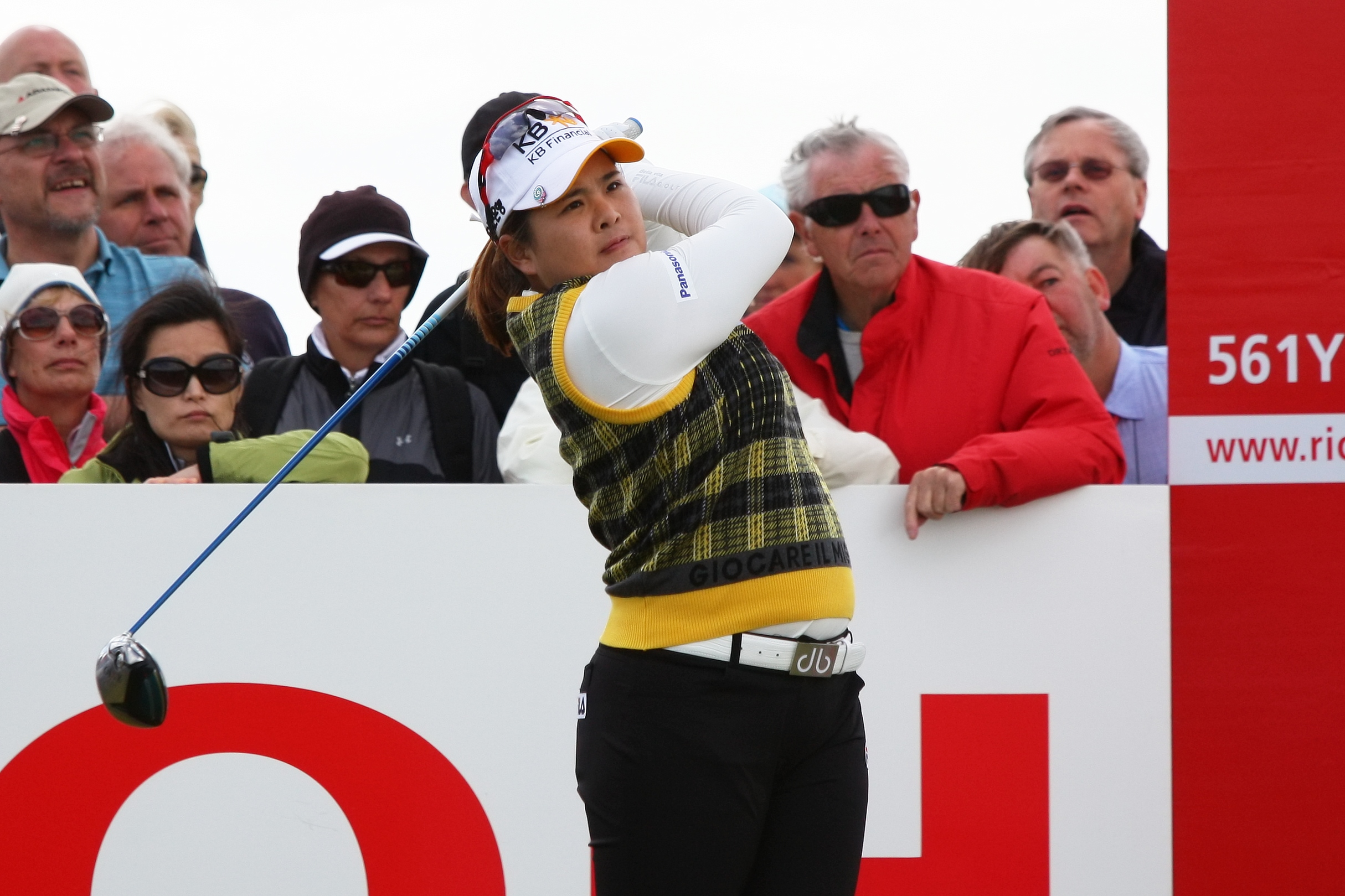 ST ANDREWS, SCOTLAND – AUGUST 03: Park Inbee of South Korea tees off on the 5th hole during third round of 2013 Ricoh Women's British Open held at St Andrews Old Course on August 3, 2013 in St Andrews, Scotland. (Photo by Wojciech Migda)